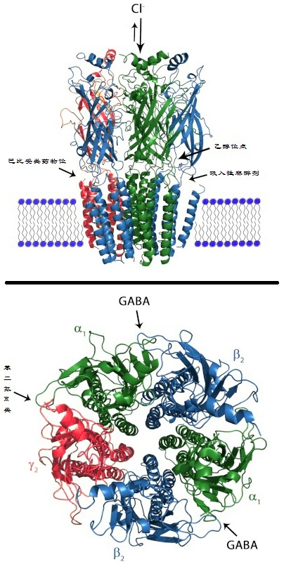 Structure of the GABAA receptor Top: side view of the GABAA RECEPTOR imbedded in a cell membrane. Bottom: view of the receptor from the extracellular face of the membrane.